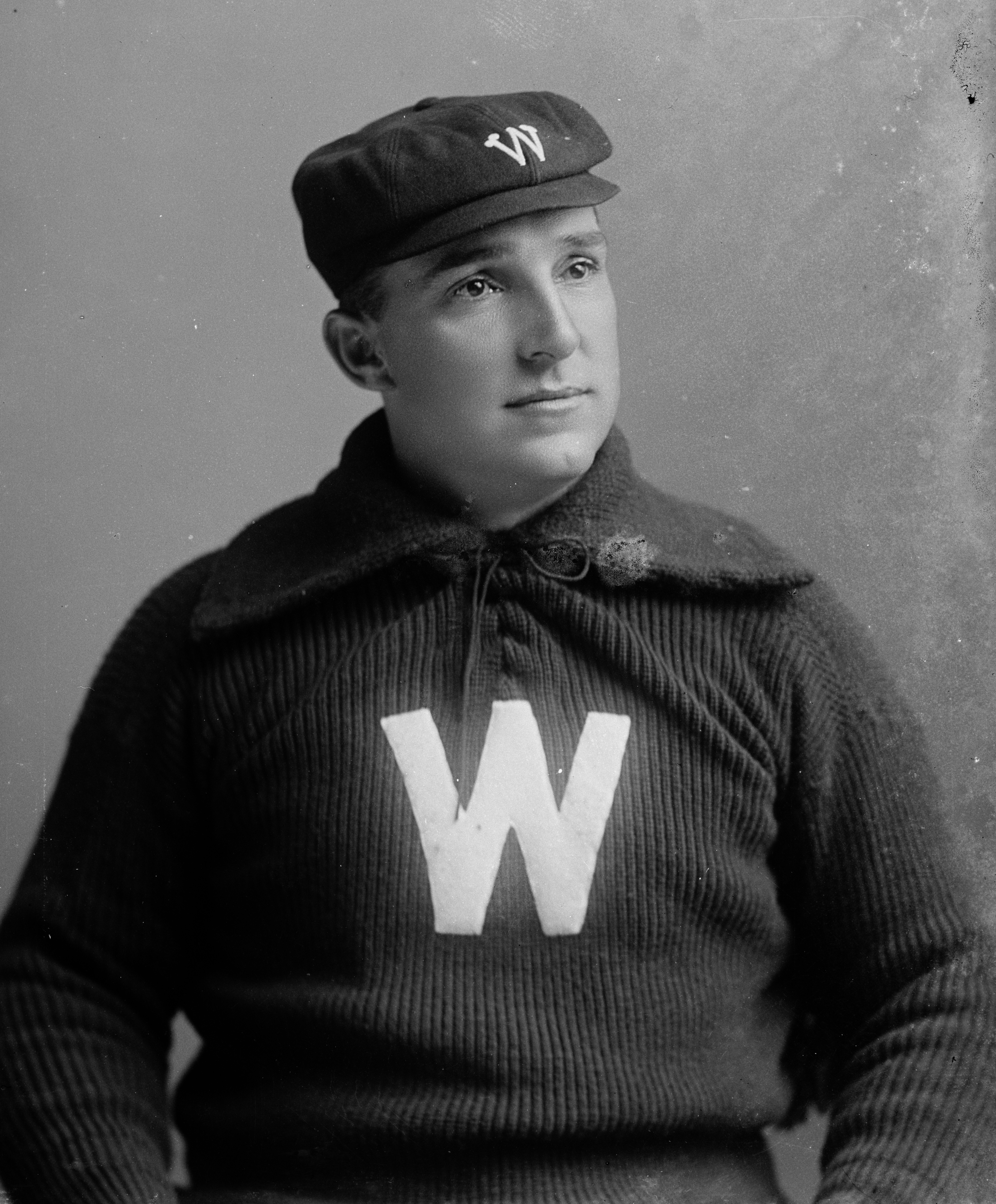 Ed Cartwrights - Washington Senator photographed by C. M. Bell studios